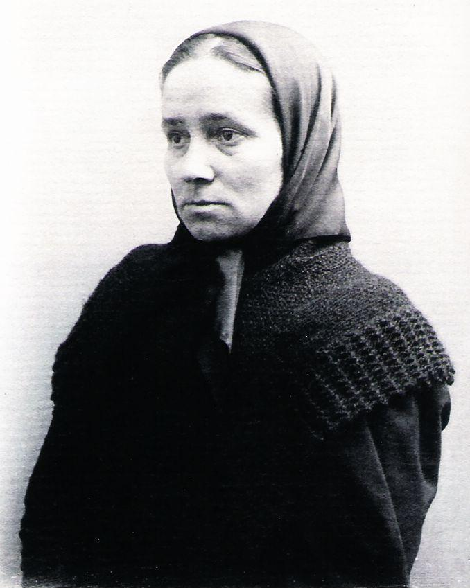 Portrait of Maria Gay Tibau, religious, foundress of Sisters of Saint Joseph of Gerona